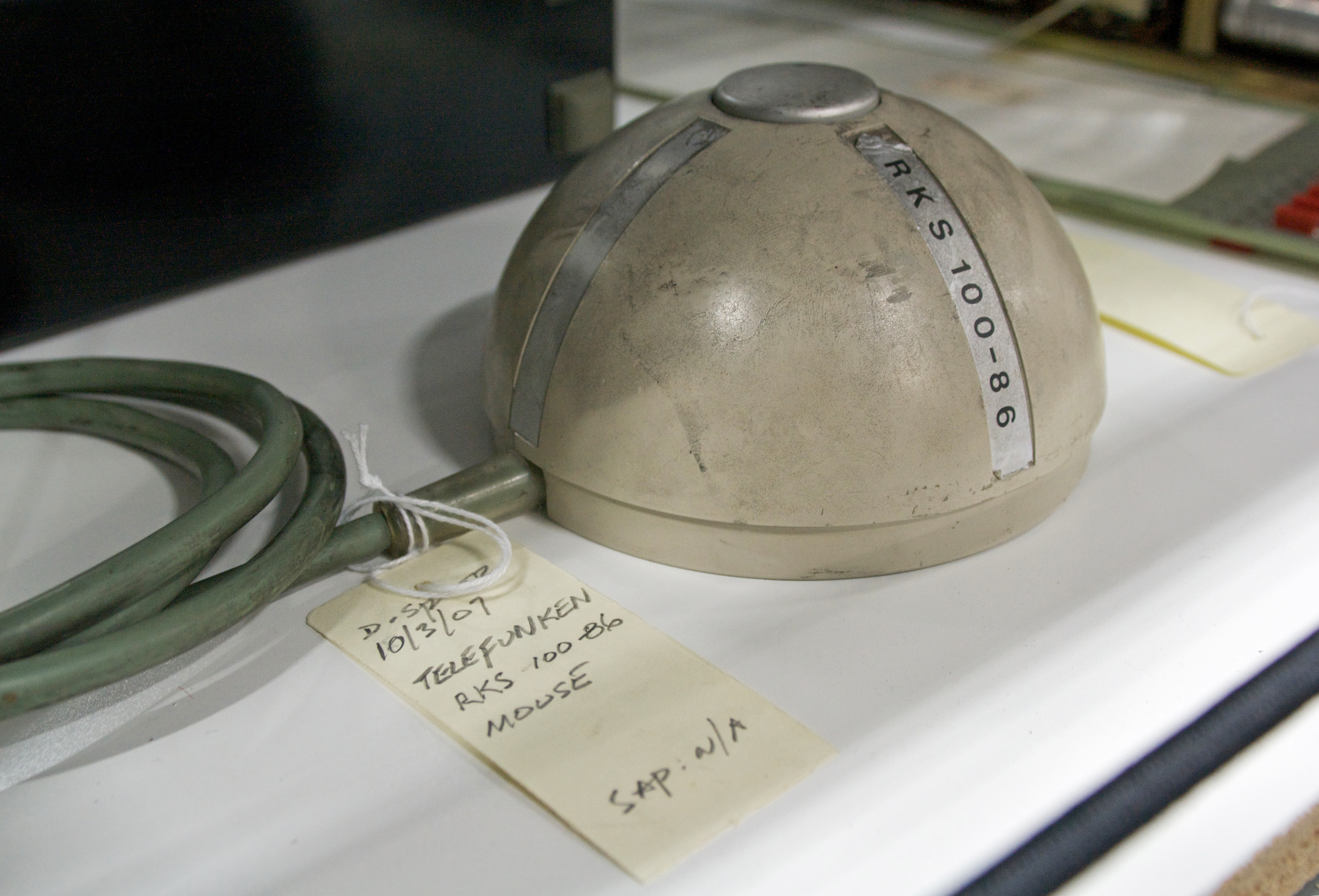 Telefunken Rollkugel RKS 100-86 "The Telefunken Rollkugel may have been the first rolling-ball mouse."— Computer History Museum